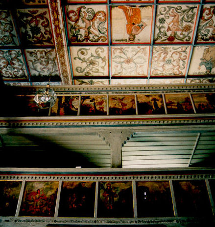 Lutheran church of Marktgemeinde Heiligenstadt near Bamberg (Upper Franconia) in Germany